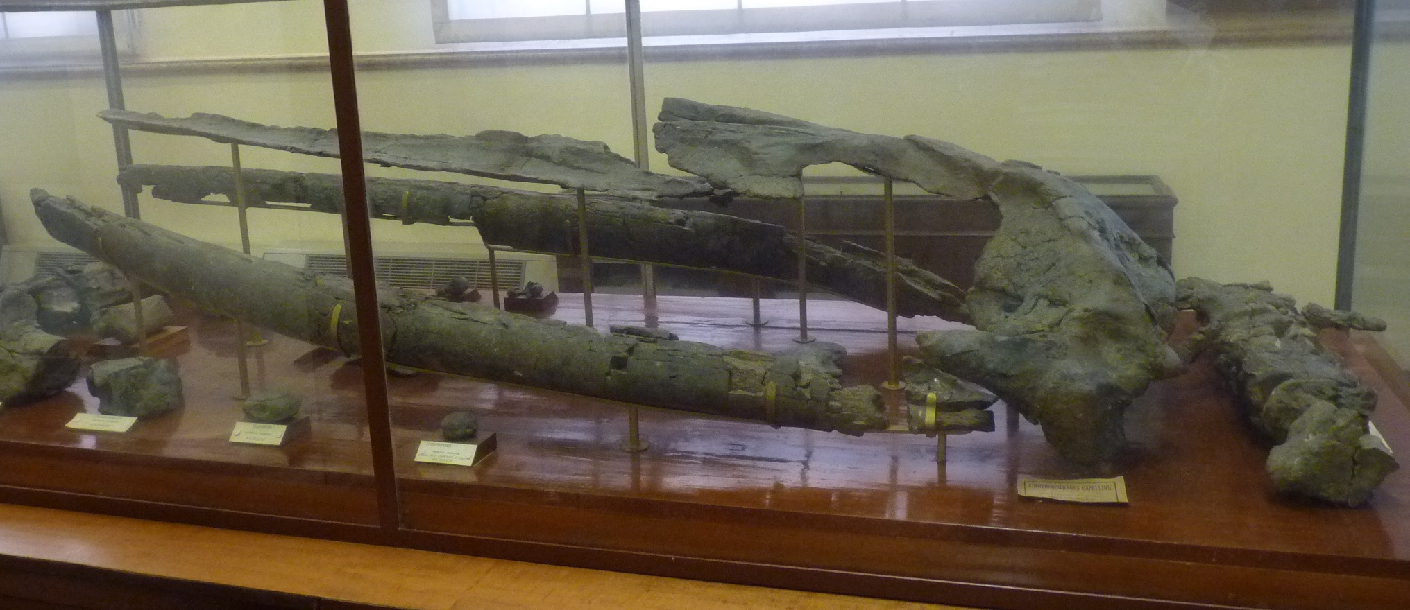 Skull of Cetotheriophanes capellinii (formerly Cetotherium capellinii), an extinct Cetotheriidae baleen whale. Pliocene from San Lorenzo in Collina, near Bologna (Italy). Museo Geologico Giovanni Capellini, Bologna.